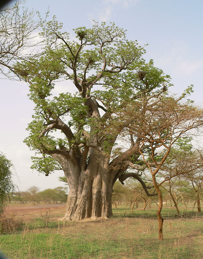 Baobab tree (Adansonia digitata) photographed south of Kaolack, Senegal